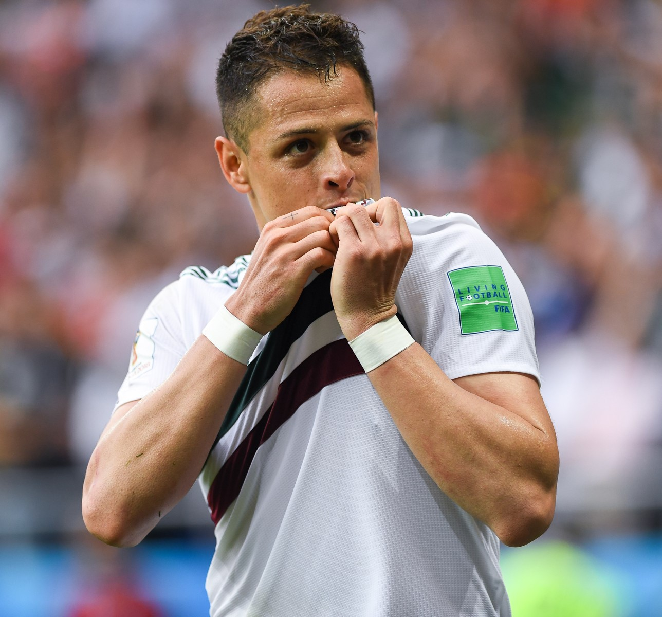 Javier Hernández Balcázar